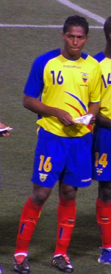 Antonio Valencia at Giants Stadium in an international friendly between Ecuador and Colombia